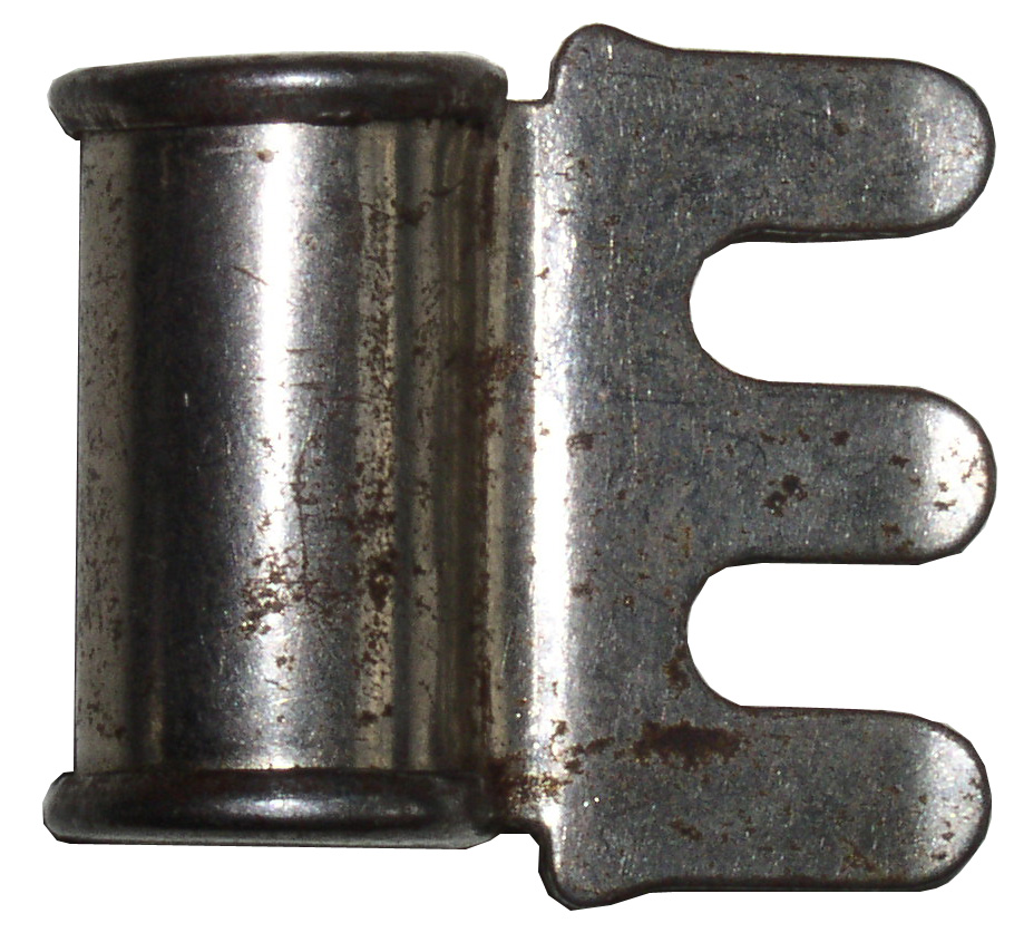 Violin mute, made of metal and much heavier than a sordino own picture